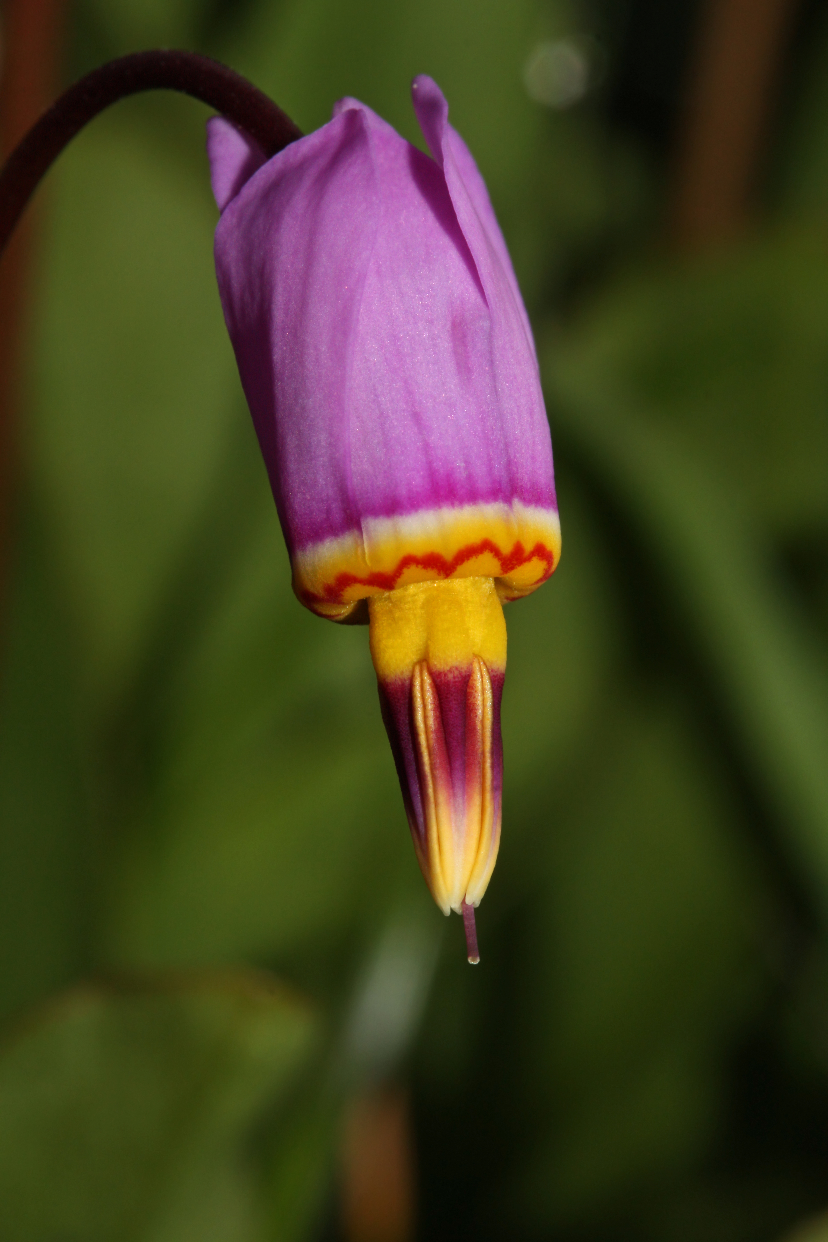 Dark-throated Shooting Star.